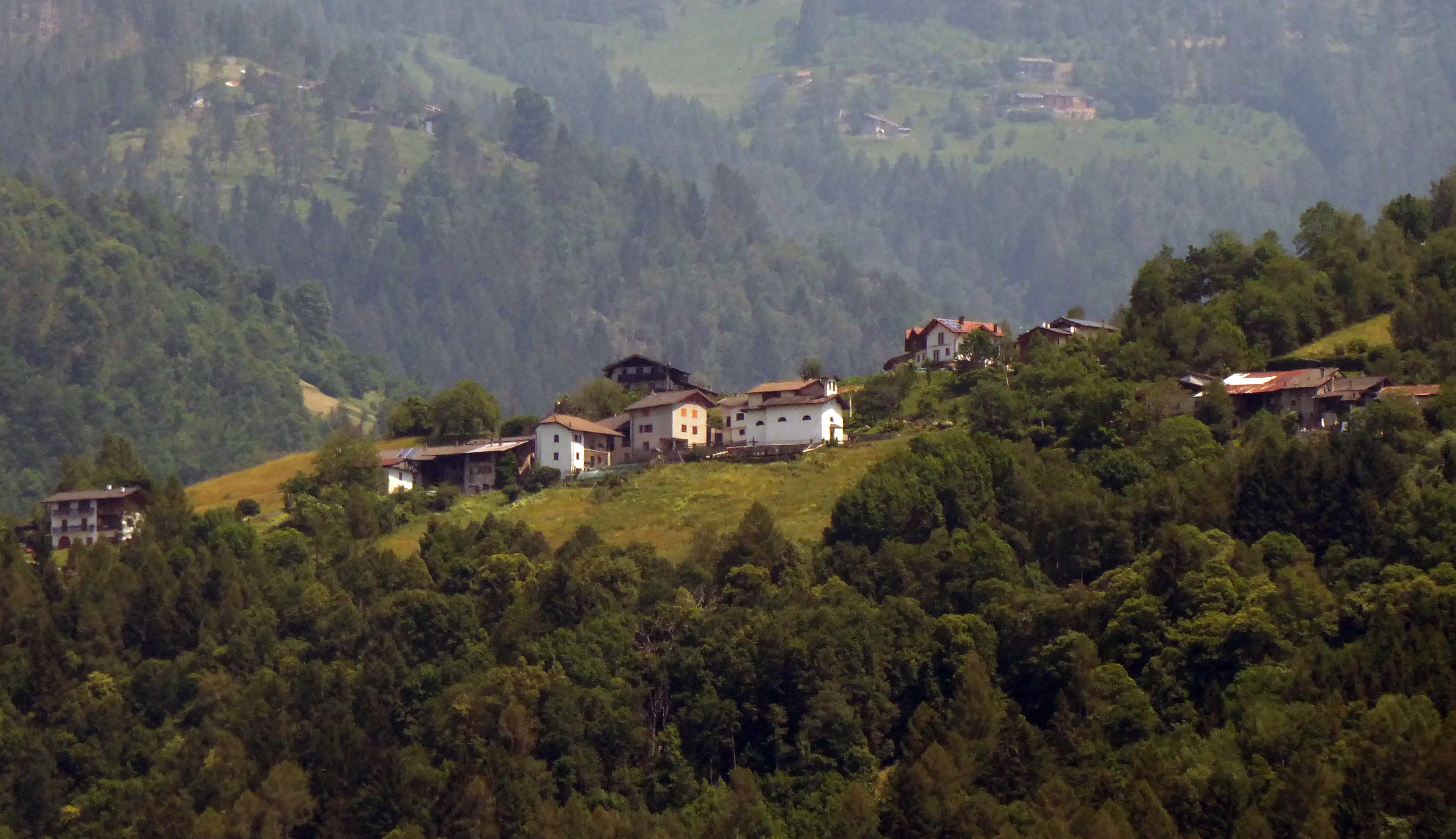 Falesina (Vignola-Falesina) as seen from Costa (Pergine Valsugana)